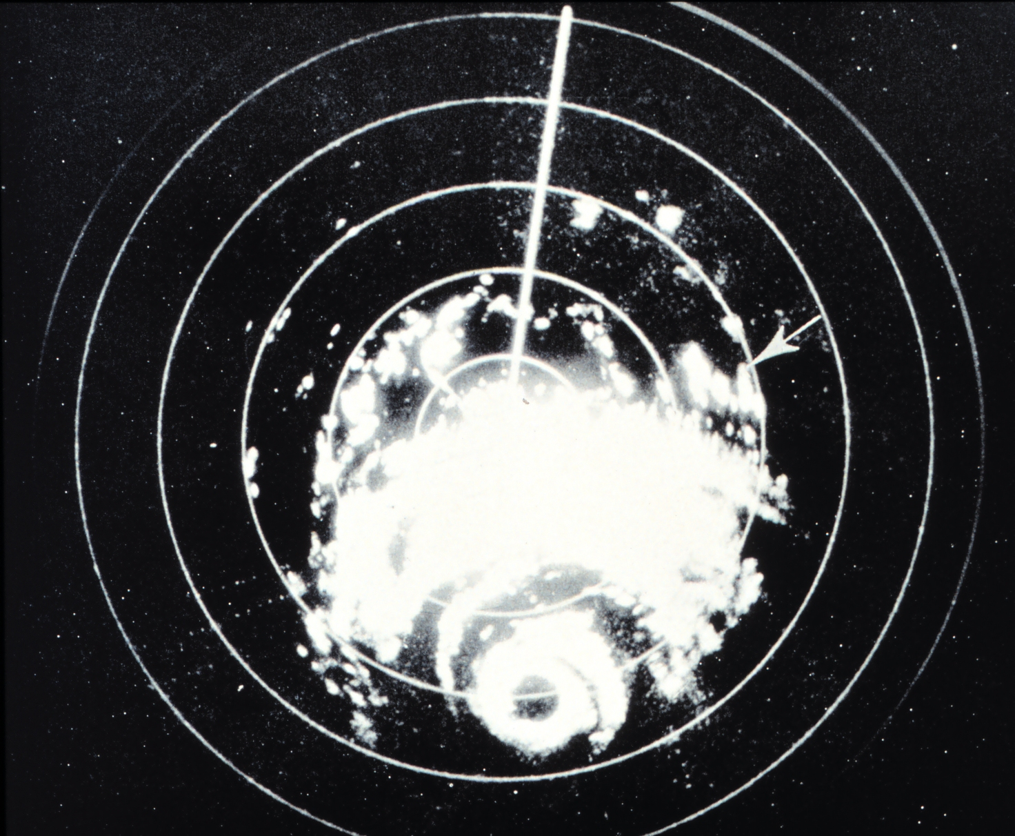 Hurricane Carla as seen by WSR-57 radar at Galveston, Texas. Arrow designates location of tornado which occurred near Kaplan, Louisiana. Monthly Weather Review, December 1962, p. 515.